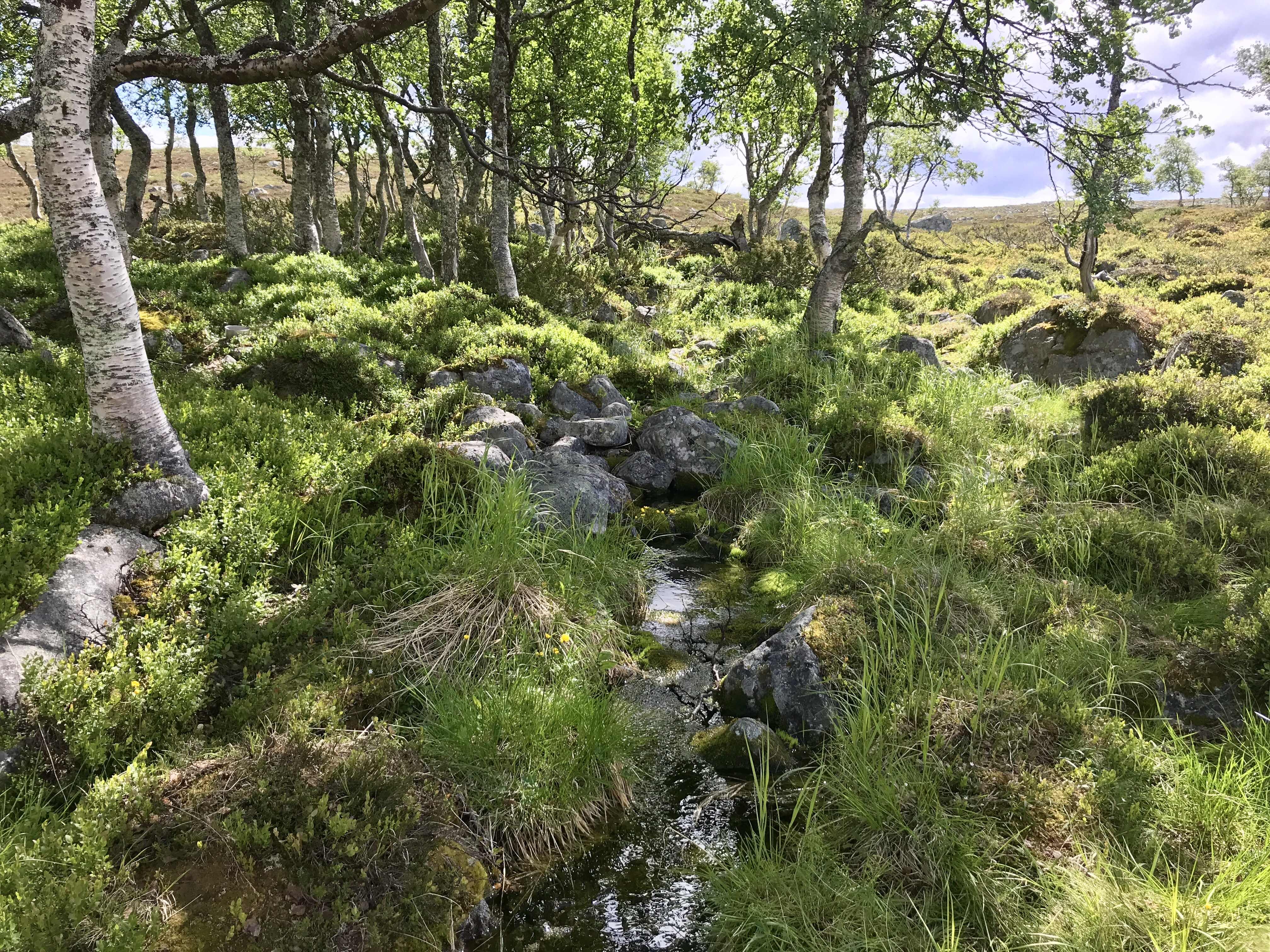 The source of the rivers Klarälven and Göta älv on the northeast side of mount Brändstöten in the Swedish landscape of Härjedalen.